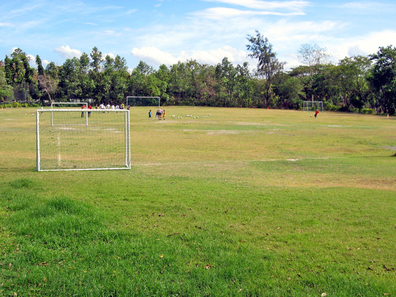 Football Field of DLS-SZ